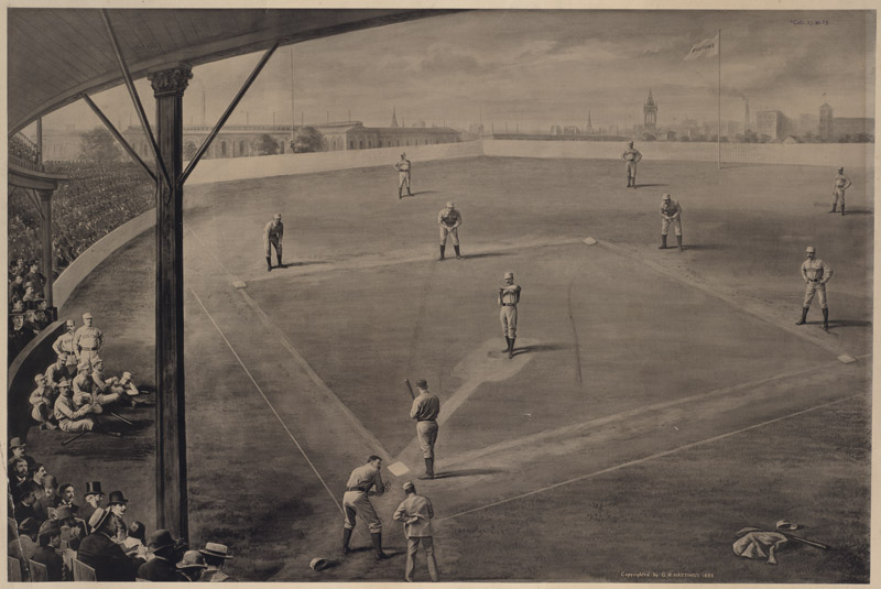 File name: 06_06_000182 Title: Boston National League Team, South End Grounds Creator/Contributor: Hastings, George H. (photographer) Created/Published: Date created: 1888 Physical description: 1 photomechanical print : collotype Description: Depiction by George H. Hastings of a game at the South End Grounds between the Boston Nationals and the New York Giants. The artist used reproductions from original images to depict the players on the field, in foul ground, and some of the spectators, presumably prominent people. The players on the field are identified as follows: William Nash, second baseman, Ezra Sutton, third baseman, Sam Wise, shortstop, John M. Ward, batting for the Giants, Mike Kelly, catcher, John Clarkson, pitcher, John F. Morrill, first baseman, Joe Hornung, left field, Richard F. Johnston, center field, Tom Brown, right field. Genre: Drawings; Collotypes Subjects: Baseball; Baseball players; Stadiums; Boston Red Sox (Baseball team); New York Giants (Baseball team) Notes: Photo caption: Boston Base Ball Club 1888; McGreevey no. 130 Location: Boston Public Library, Print Department Rights: No known restrictions